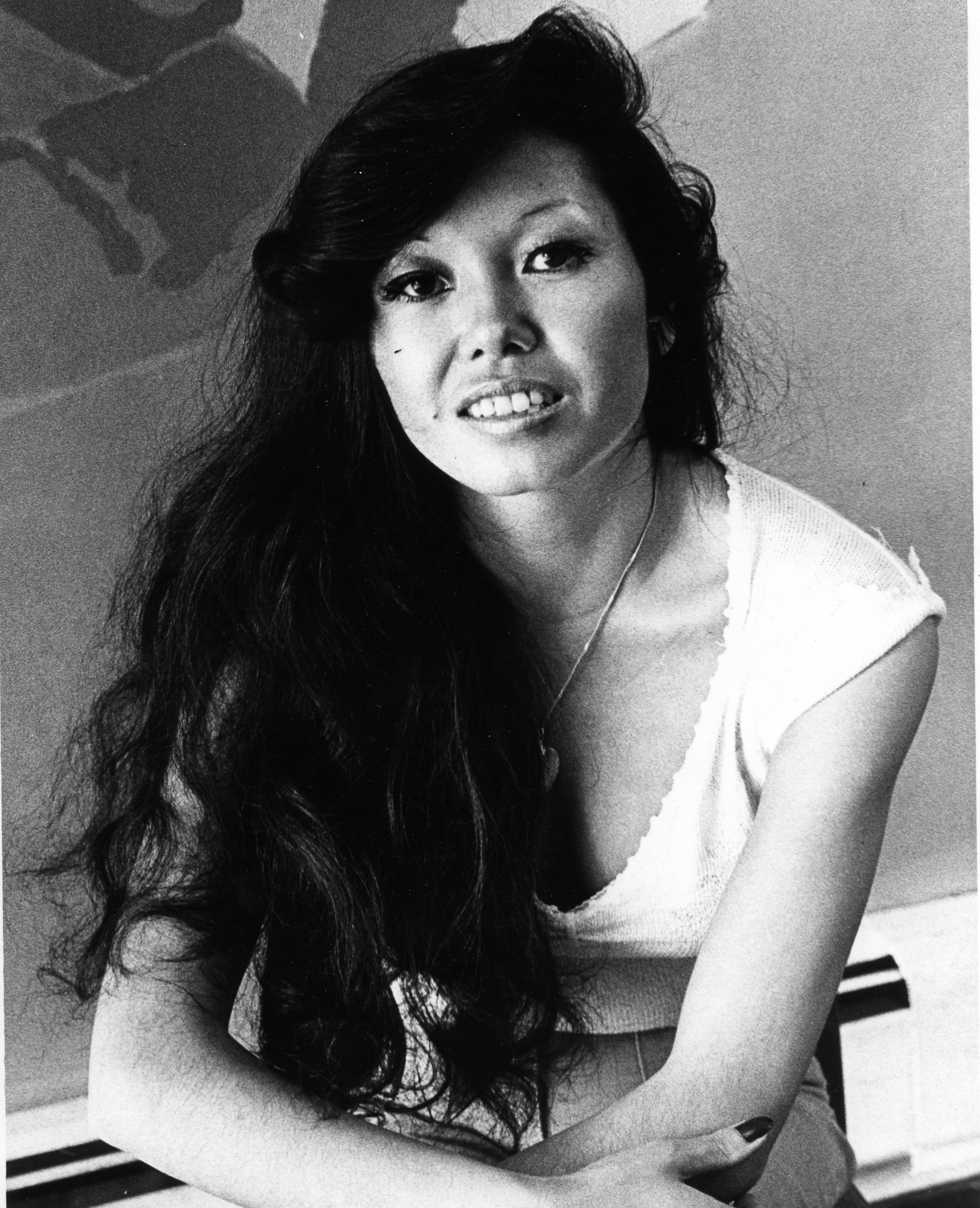 Poet Janice Mirikitani 1975 San Francisco. Photo by Nancy Wong